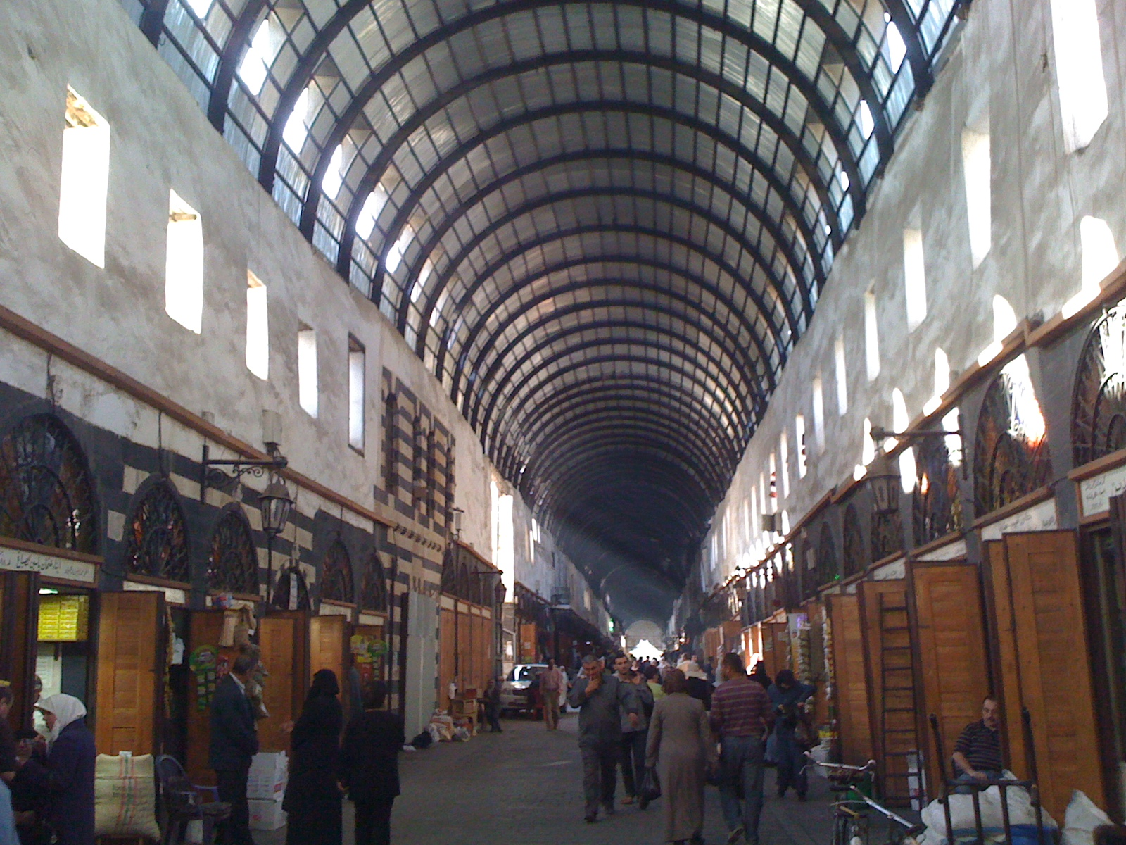 Medhat Pasha Souq